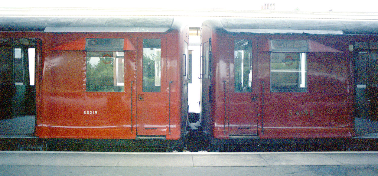 Originally the red coloured CO / CP / COP trains were painted in dark red and featured gilt coloured (with black edging) lettering. In 1973 the policy was changed so that when repainted 'bus' red with white lettering was used instead. This image shows the two variants side by side. Photographed by SP Smiler